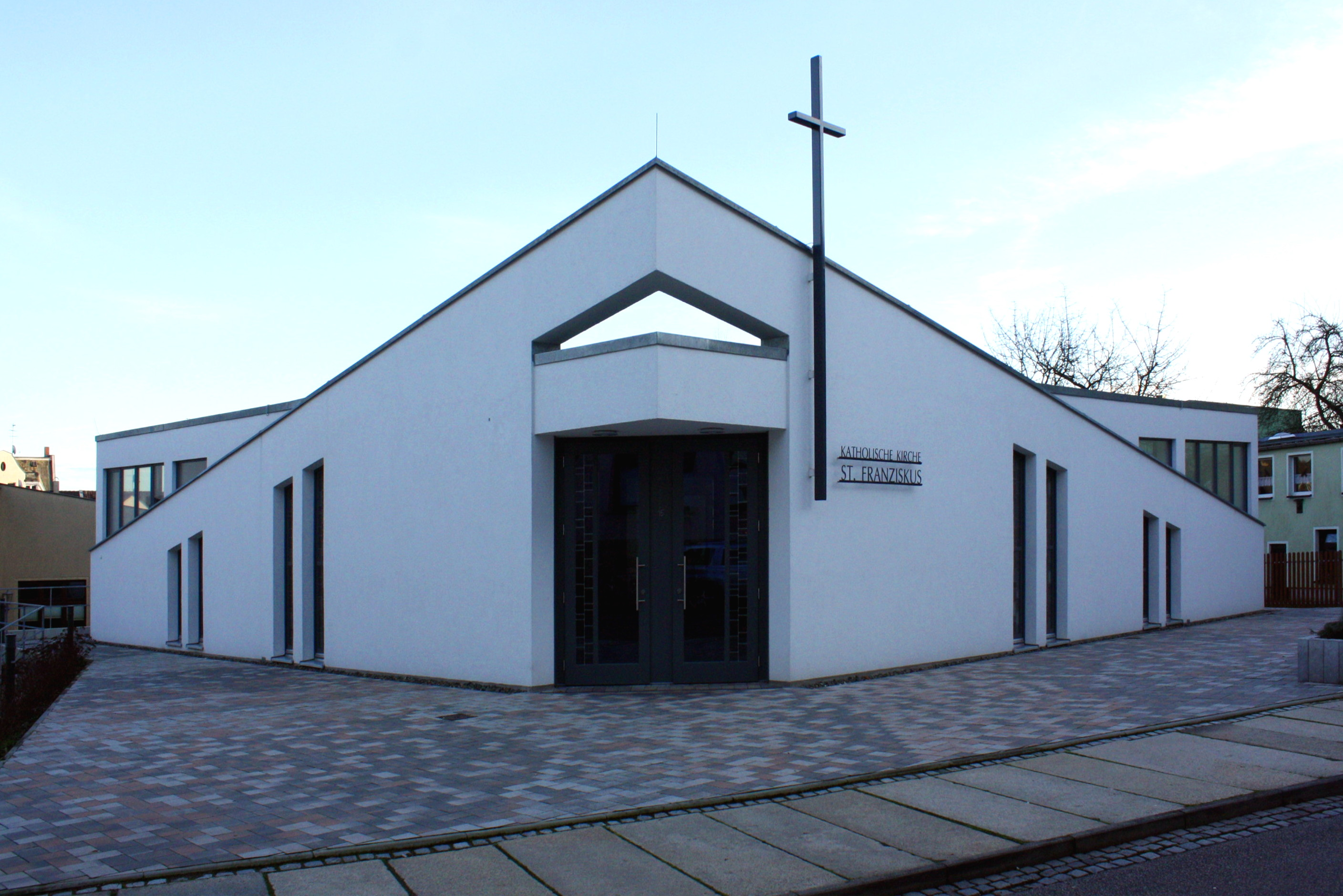 Catholic church in Crimmitschau near Zwickau/Saxony